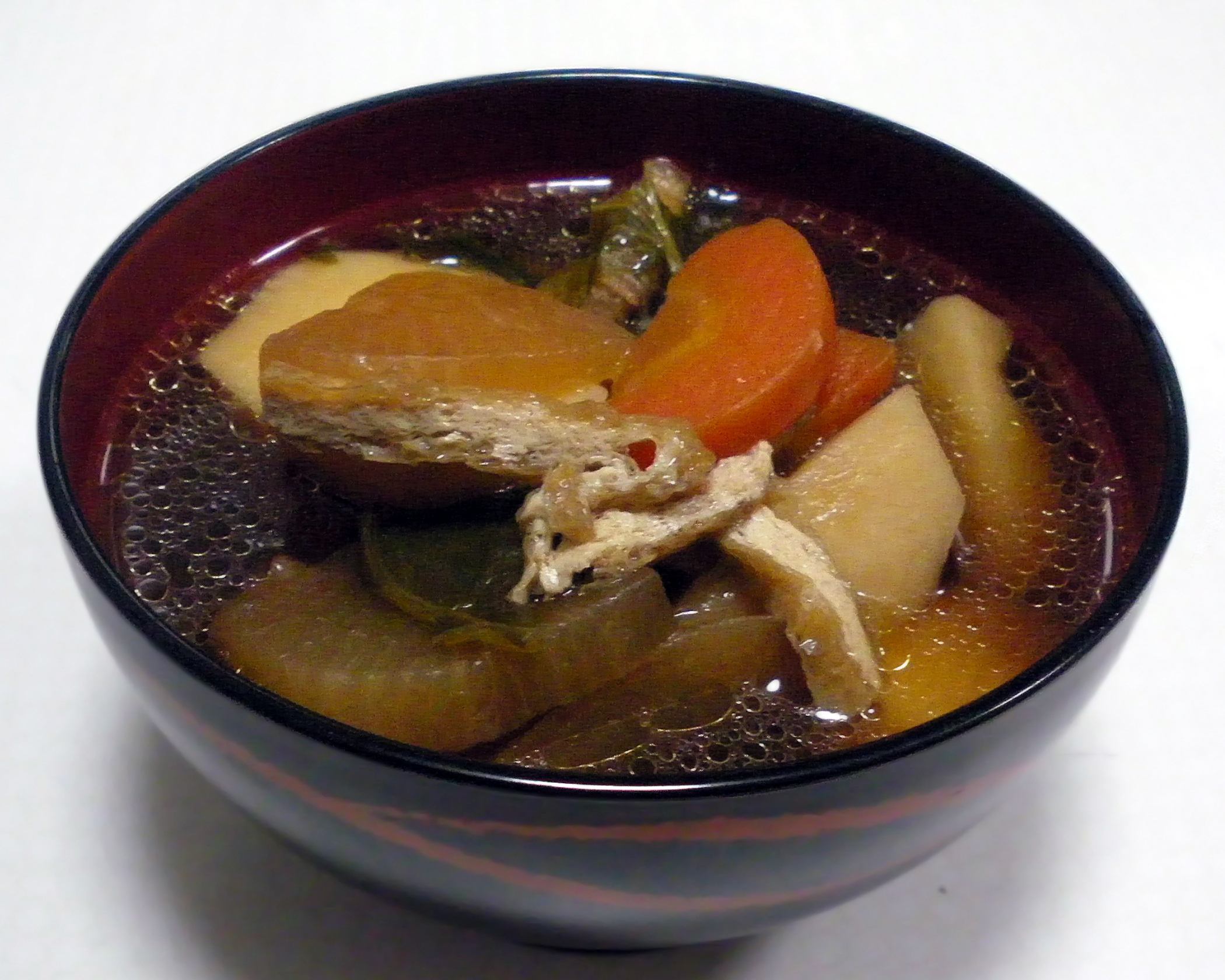 A photo of Kenchin-jiru(a vegetable soup of Japanese cuisine,soy sauce flavor).